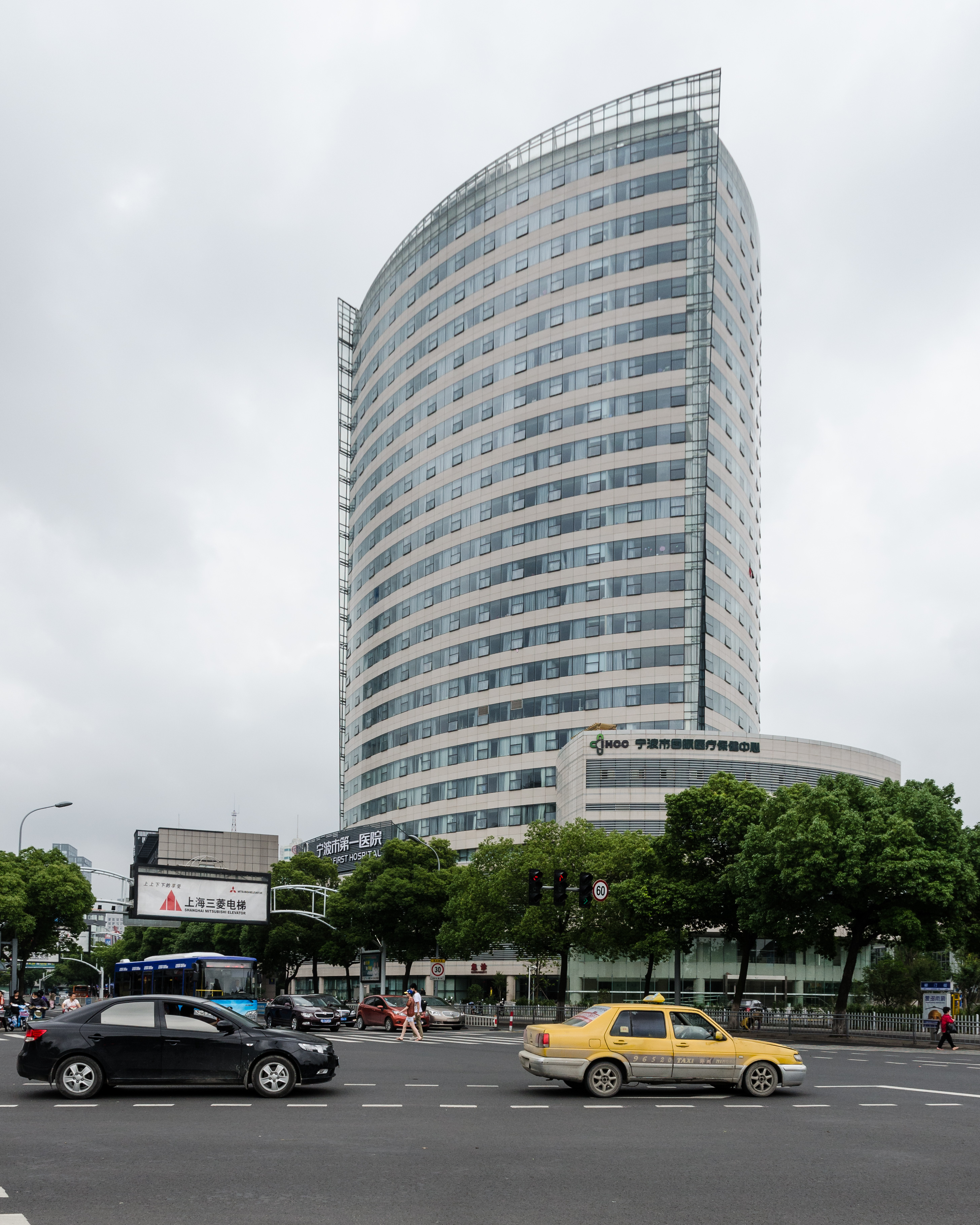 The Ningbo First Hospital in Ningbo, Zhejiang as seen from west